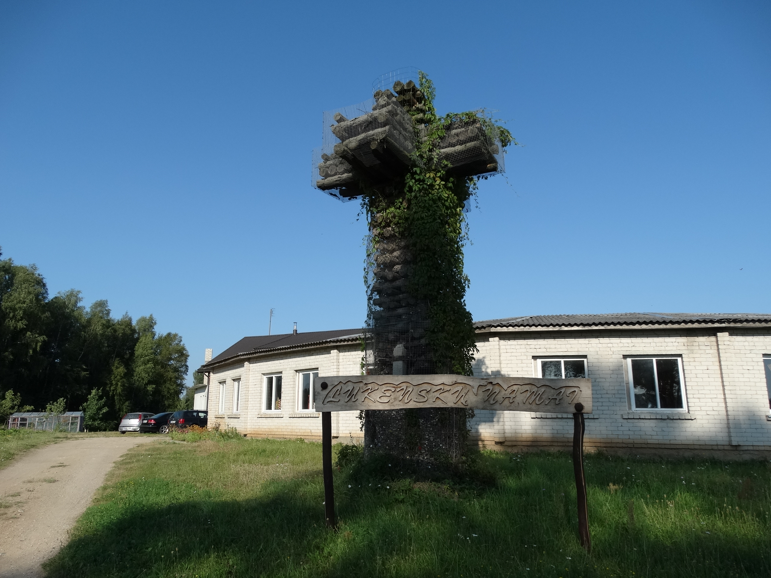 Kultuvėnai, Ukmergė district, Lithuania